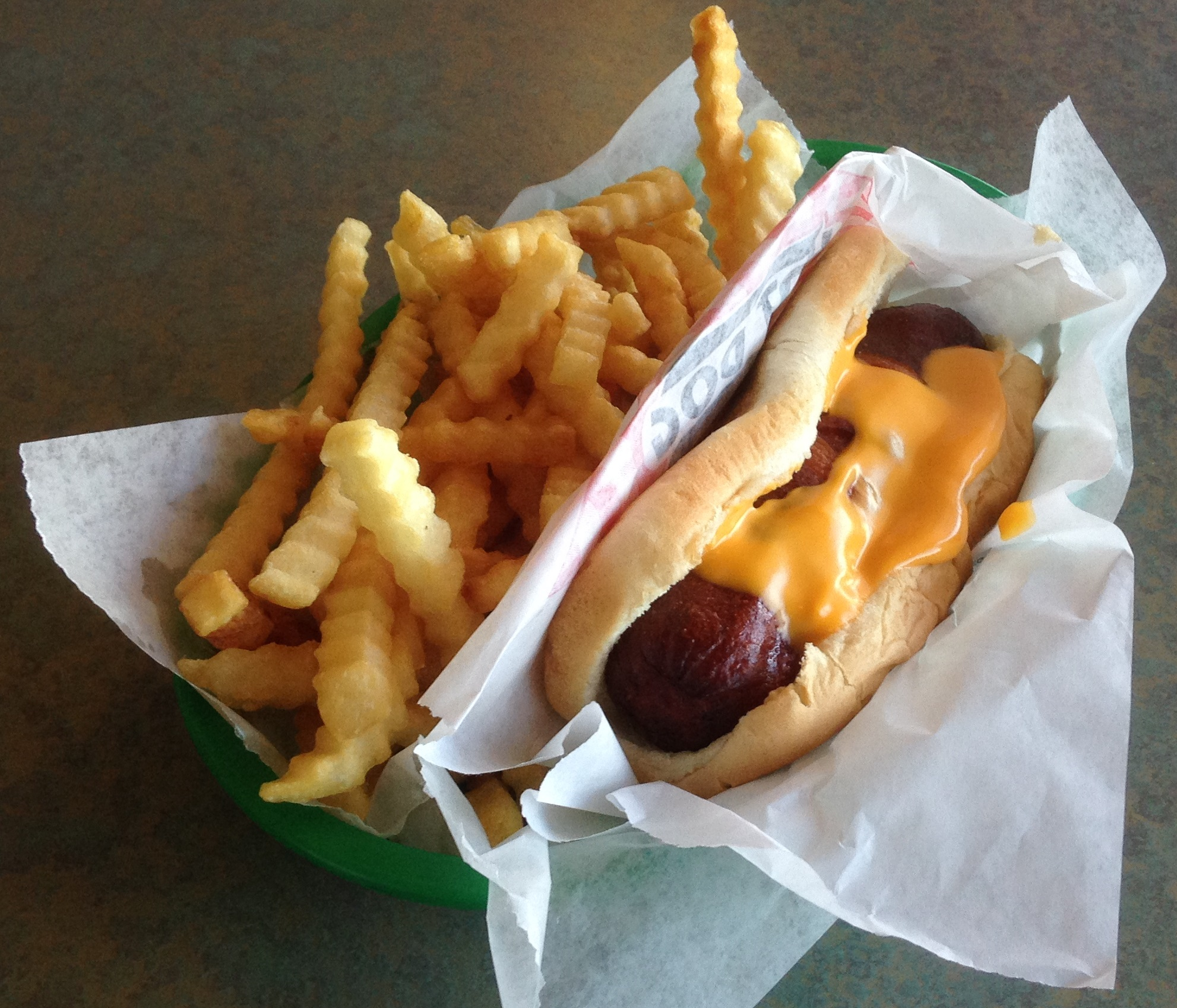 A francheezie with a side of fries, at Papa Chris' Place in Chicago.